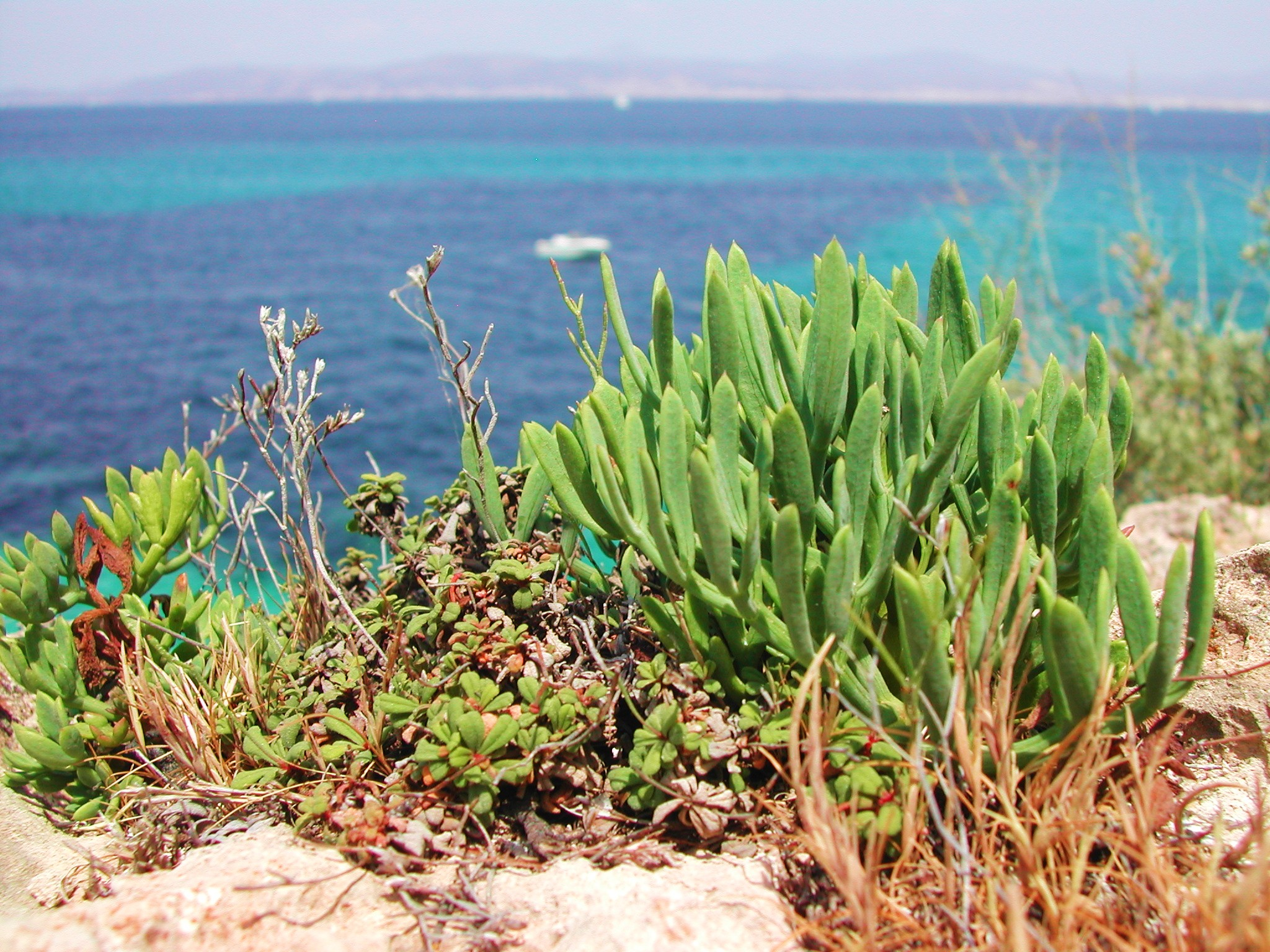 Sea fennel over Cala Blava Rocks(crithmum maritimum), Mallorca.